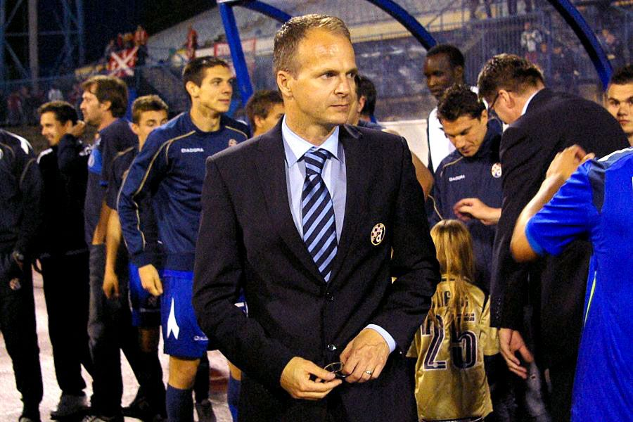 Marijo Tot